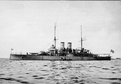 Swedish coastal defence ship HMS Dristigheten in her original appearance.